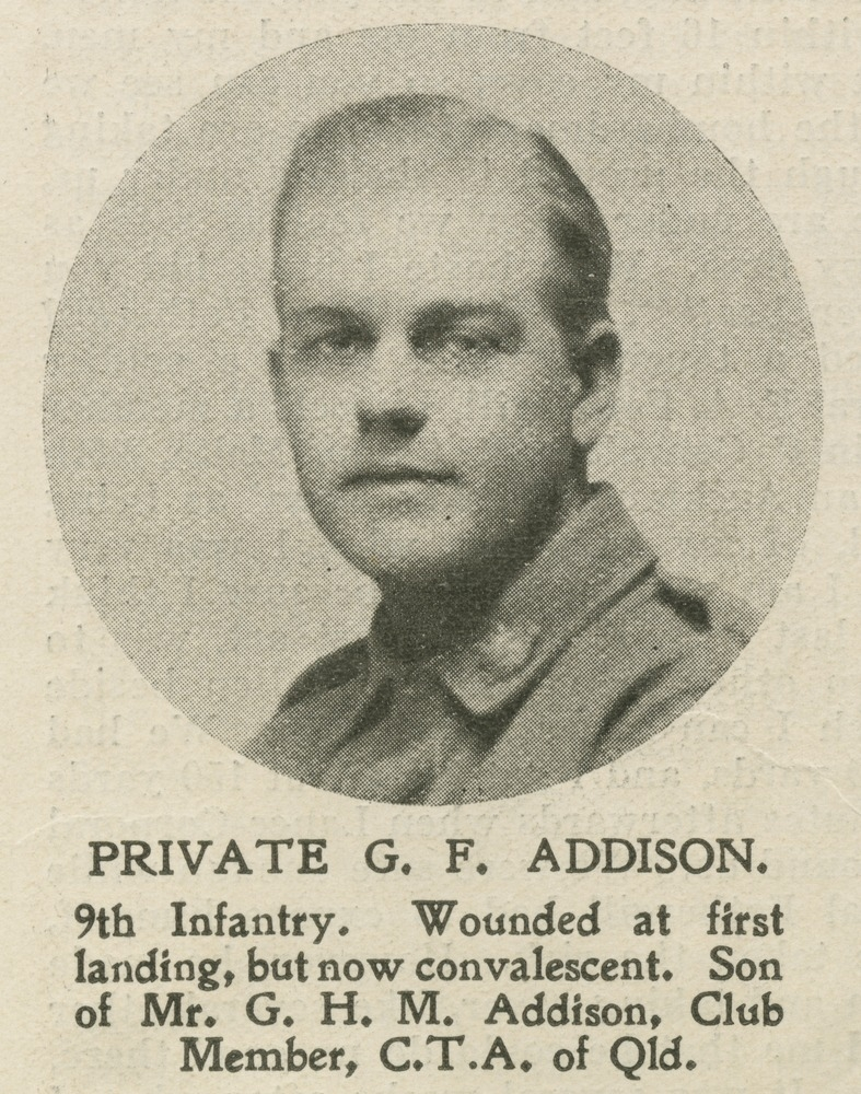 Portrait of Private George Frederick Addison